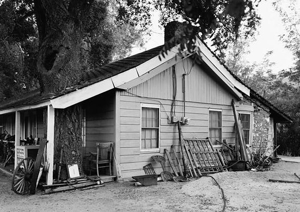 Oak Grove Butterfield Stage Station — east of Warner Springs, in northeastern San Diego County, Southern California. A California adobe built in 1858, and and is the only surviving station on the Butterfield Overland Mail stagecoach line. A National Historic Landmark, and on the National Register of Historic Places — located in present day , 1960 image: HABS—Historic American Buildings Survey of San Diego (cropped).